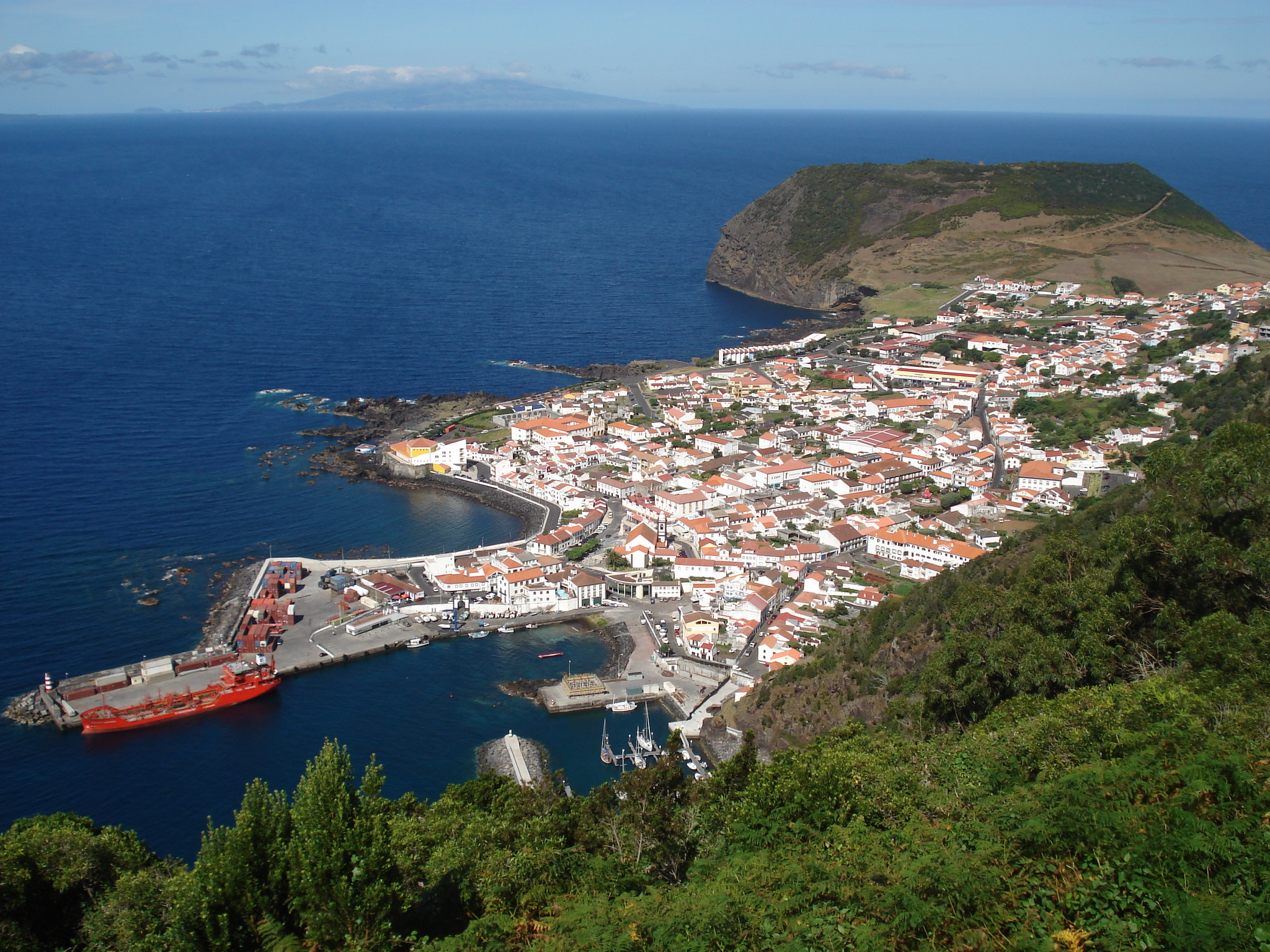 The village of Velas, on the southwestern coast of the island of São Jorge, Azores